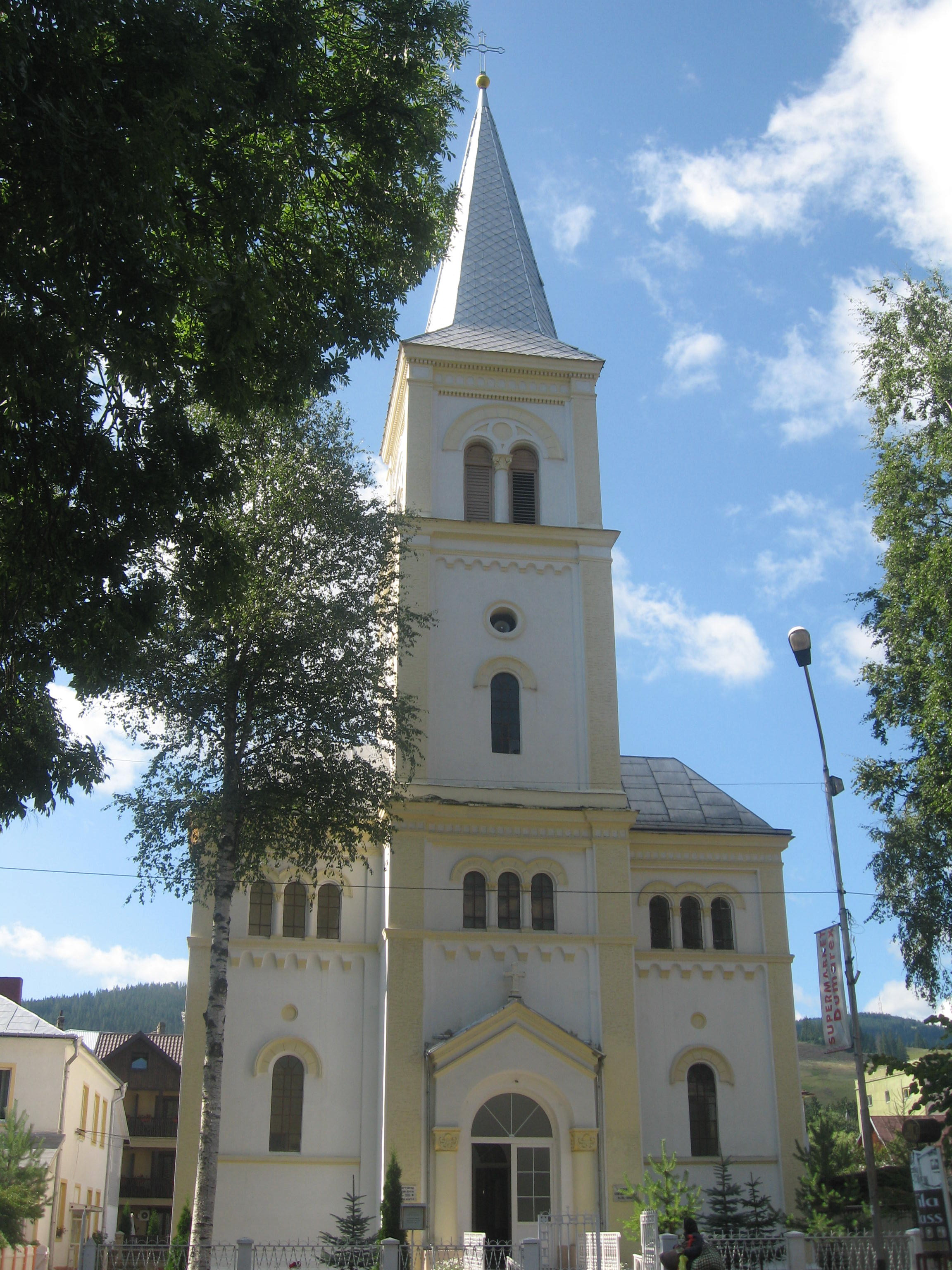 The Roman-Catholic Church in Vatra Dornei, Romania